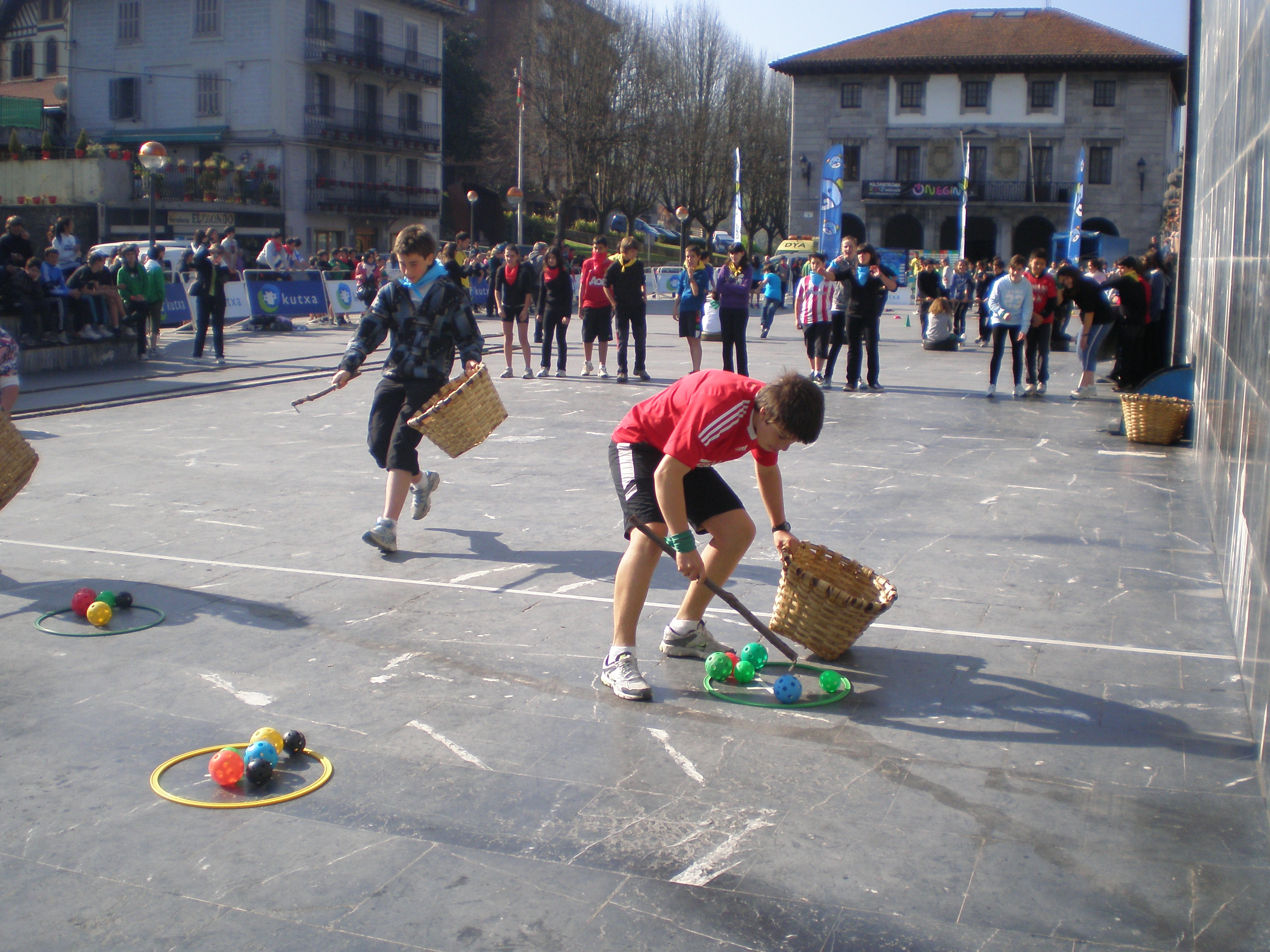 "Sagar biltze" or apple picking game, Ordizia, Basque Country.